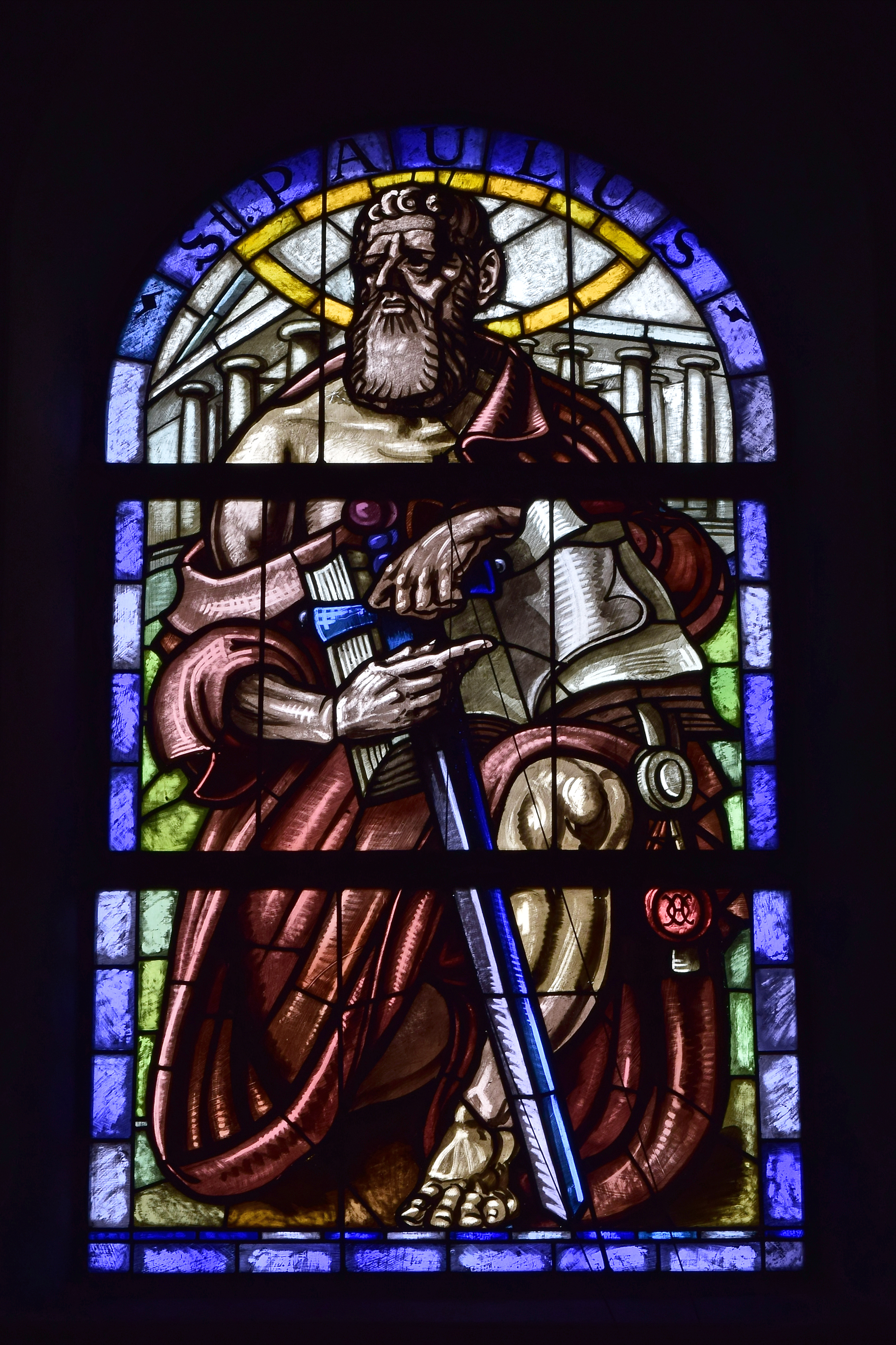 Stained glass window of Parish Church Reith bei Seefeld, showing Saint Paul.